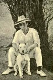 Photograph from The adventures of an elephant hunter